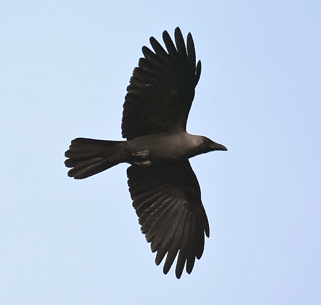 House Crow Corvus splendens in Kolkata, West Bengal, India.